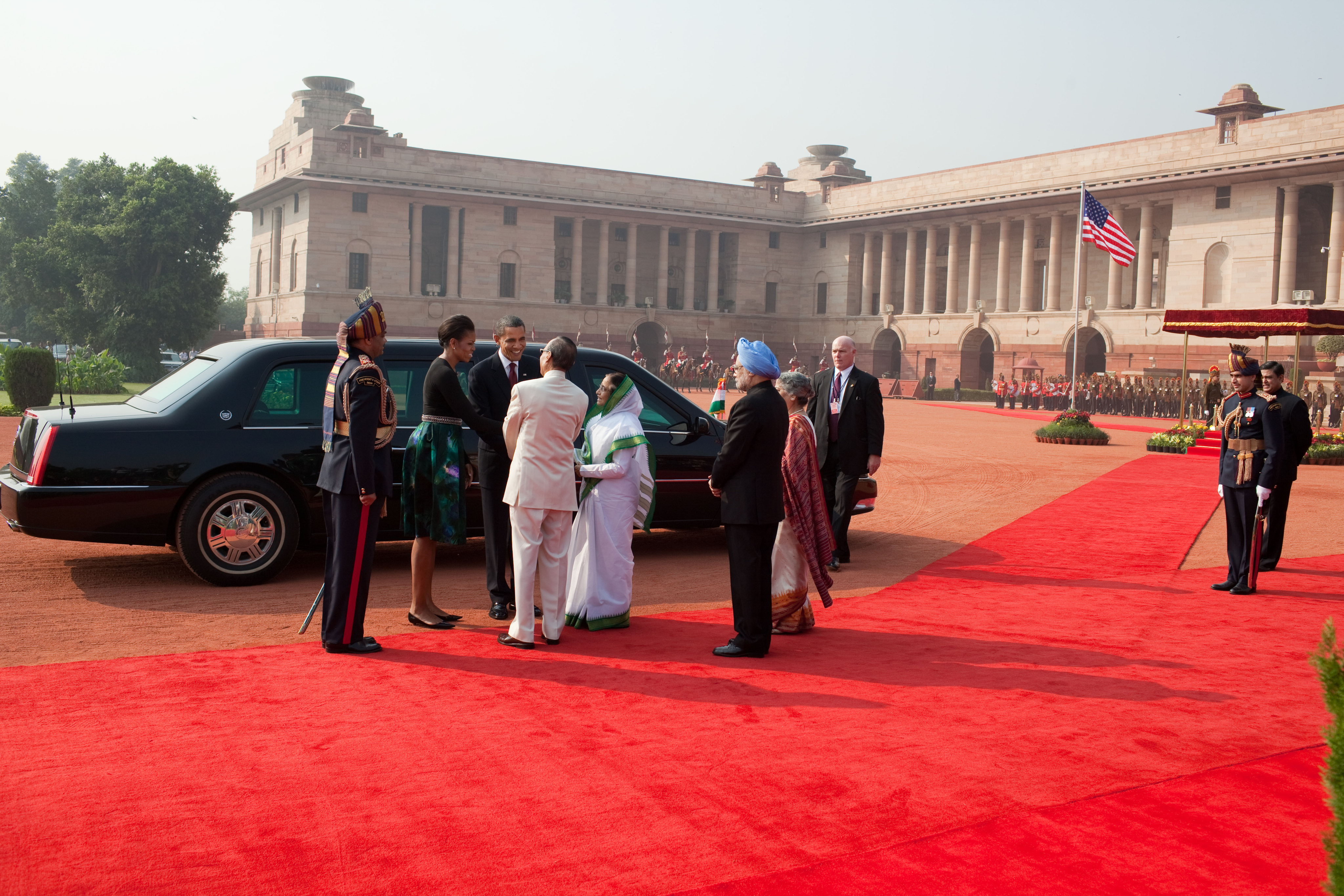 President Barack Obama and First Lady Michelle Obama are greeted by President Pratibha Devisingh Patil, her husband, Dr. Devisingh Ramsingh Shekhawat, and Prime Minister Manmohan Singh and his wife, Mrs. Gursharan Kaur, right, during the official arrival ceremony at the Rashtrapati Bhavan, the presidential palace in New Delhi, India, Nov. 8, 2010. (Official White House Photo by Pete Souza)